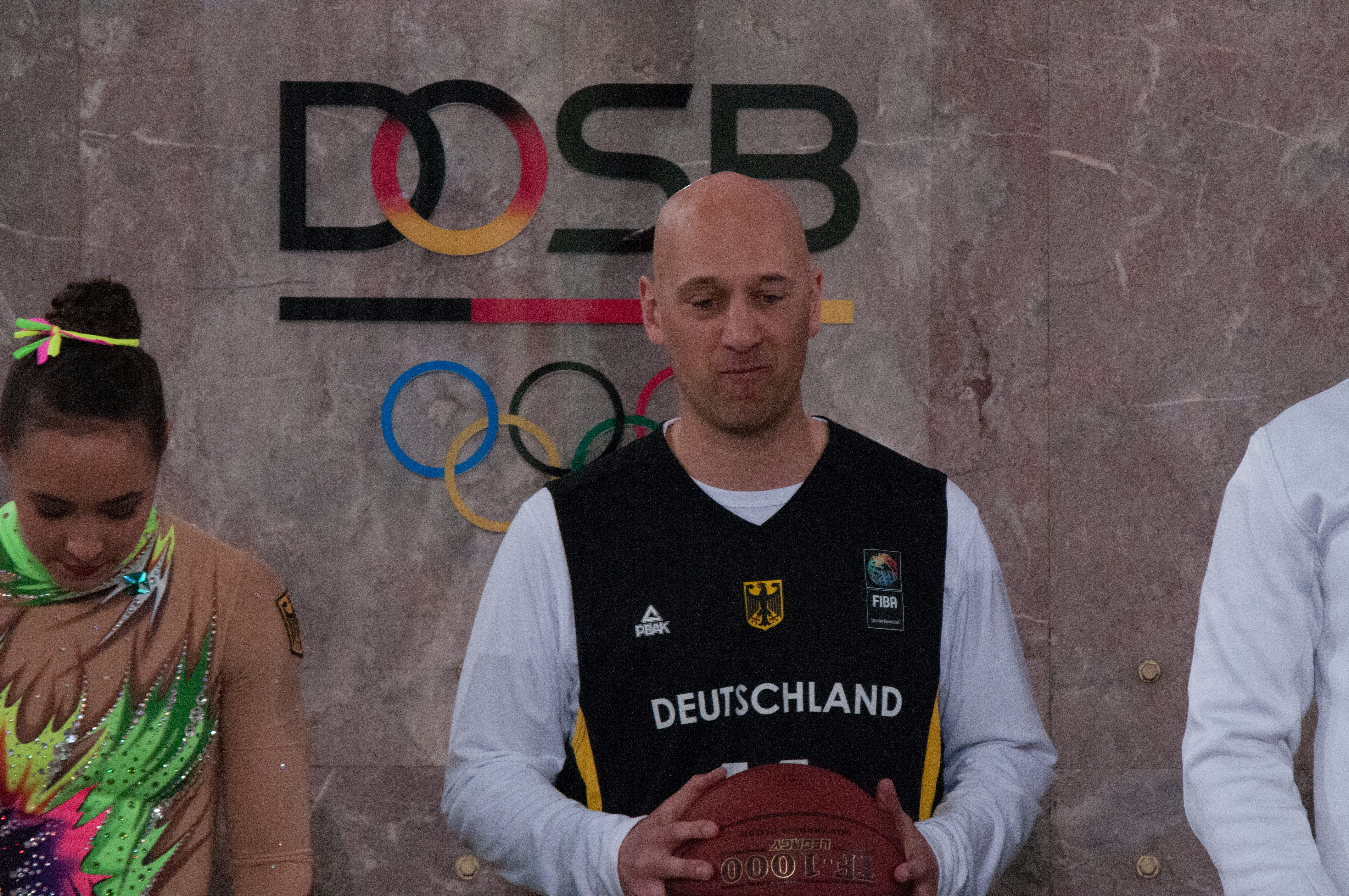 10 year DOSB